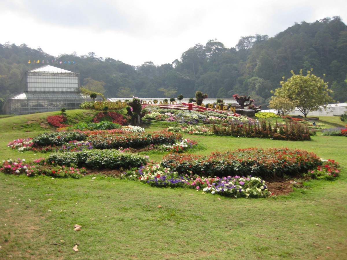 Photographed at the Queen Sirikit Botanic Garden (Chiang Mai Province, Thailand) in March